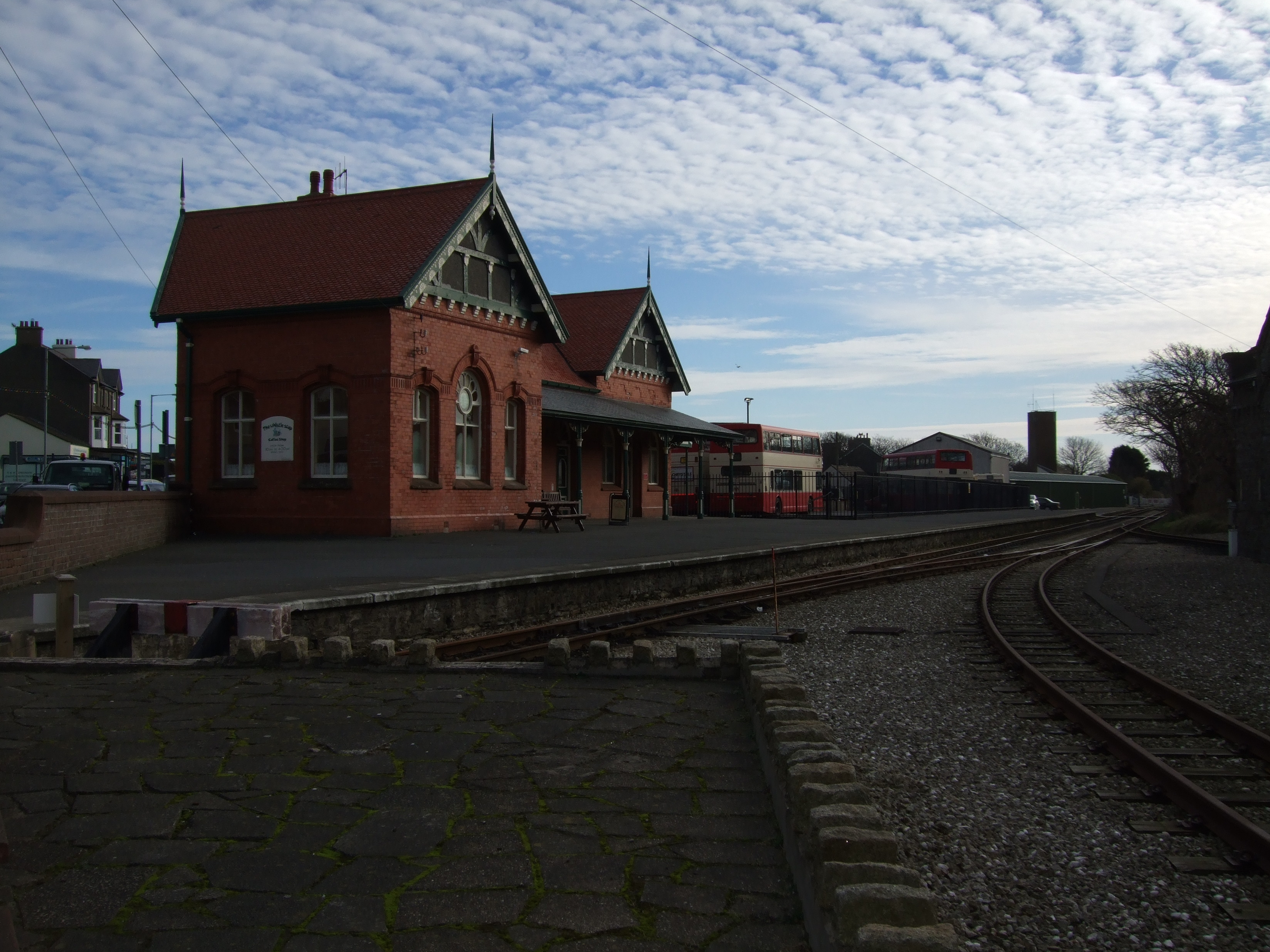 Port Erin station Deserted on a cold February morning.